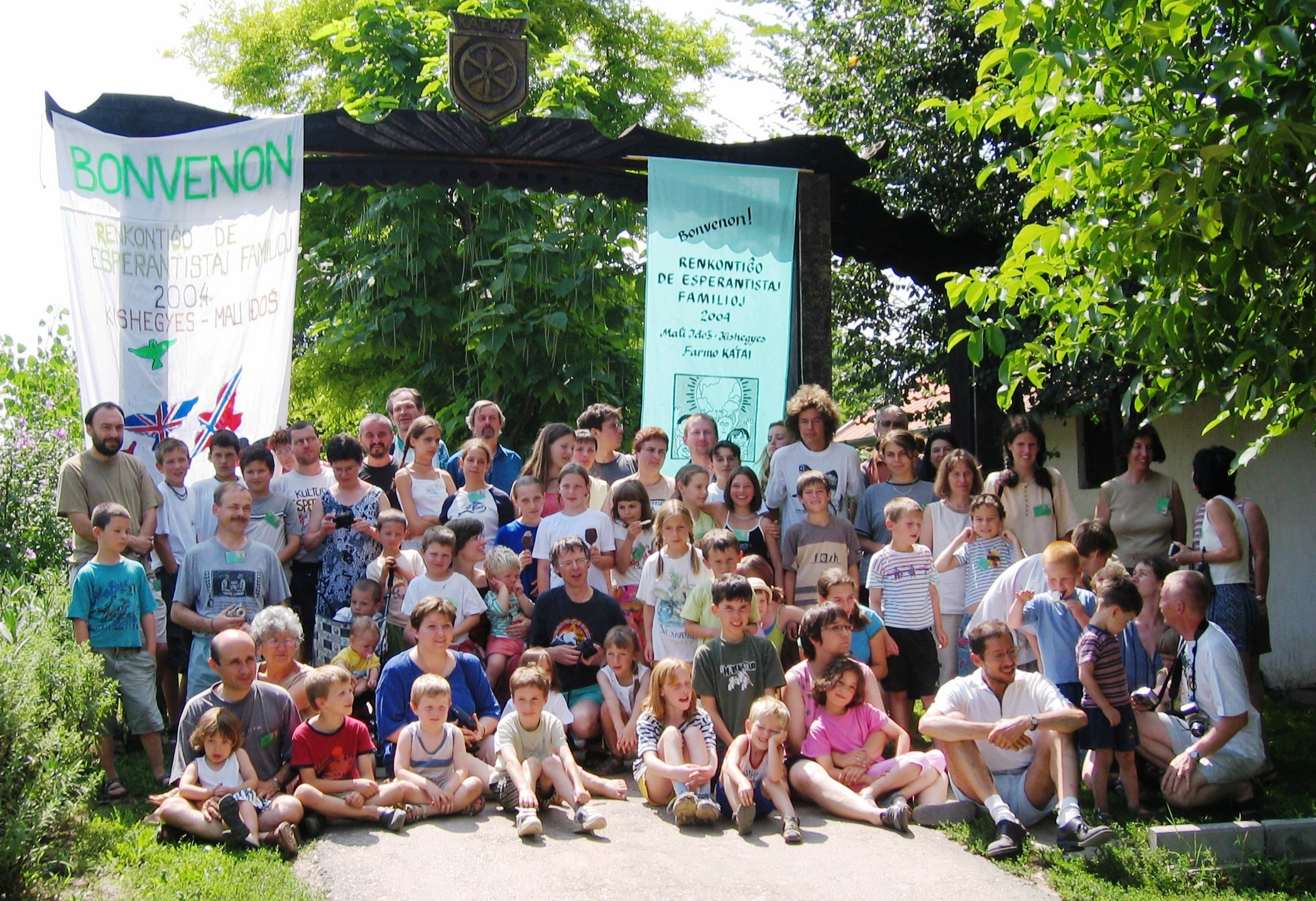 Esperanto-Families Meeting 2004 in Kishegyes - Mali Idos (Serbia) - common photo